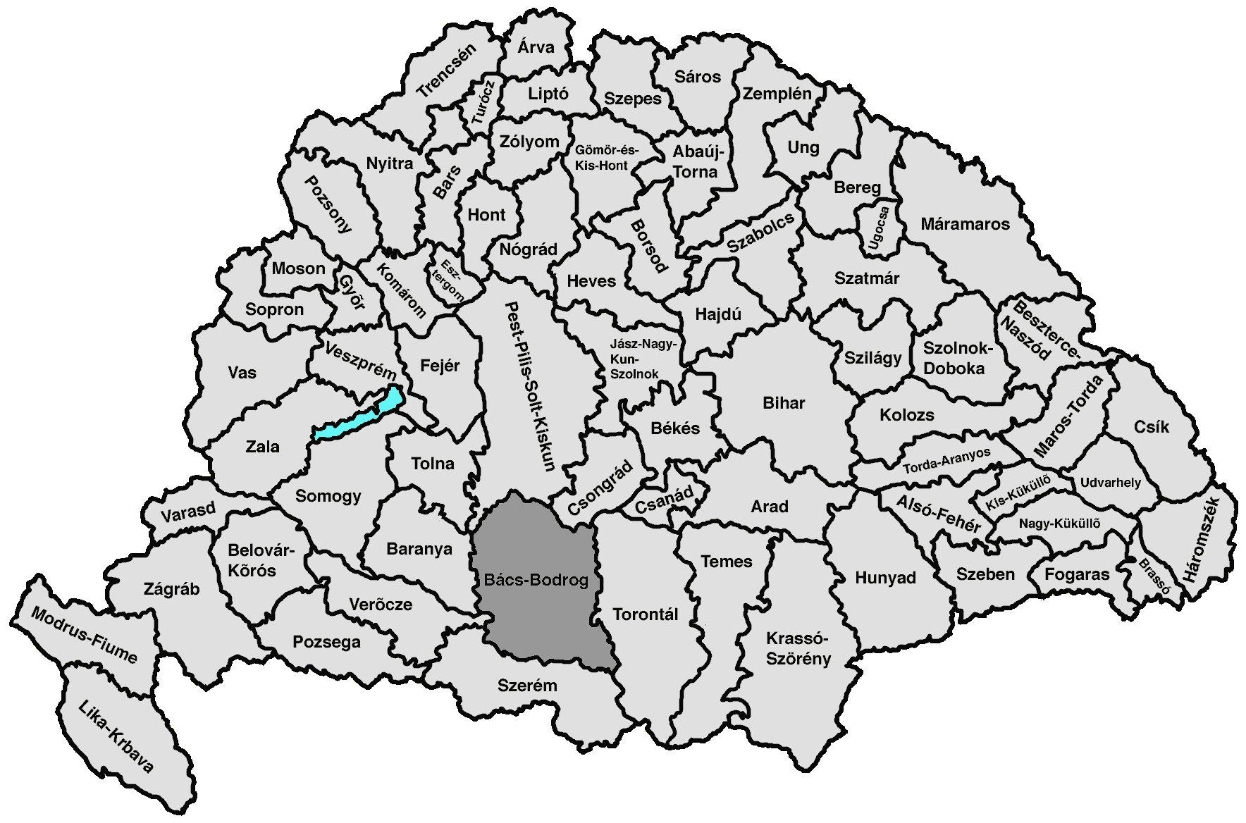 own edit of Image:Zala.png